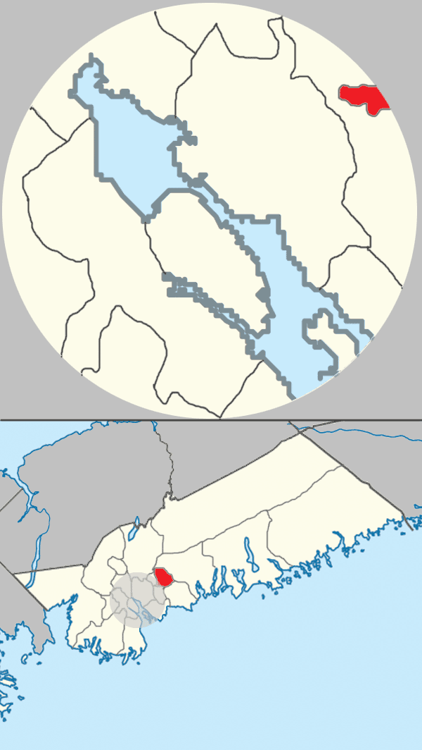 Updated map of Prestons planning area in Halifax, Nova Scotia to standard colours, higher resolution, using